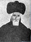 A portrait purportedly depicting Rabbi Shabbatai ha-Kohen (1621–1662), though it is in fact Rabbi Chaim Deutschmann (1760 - 1837). See here.